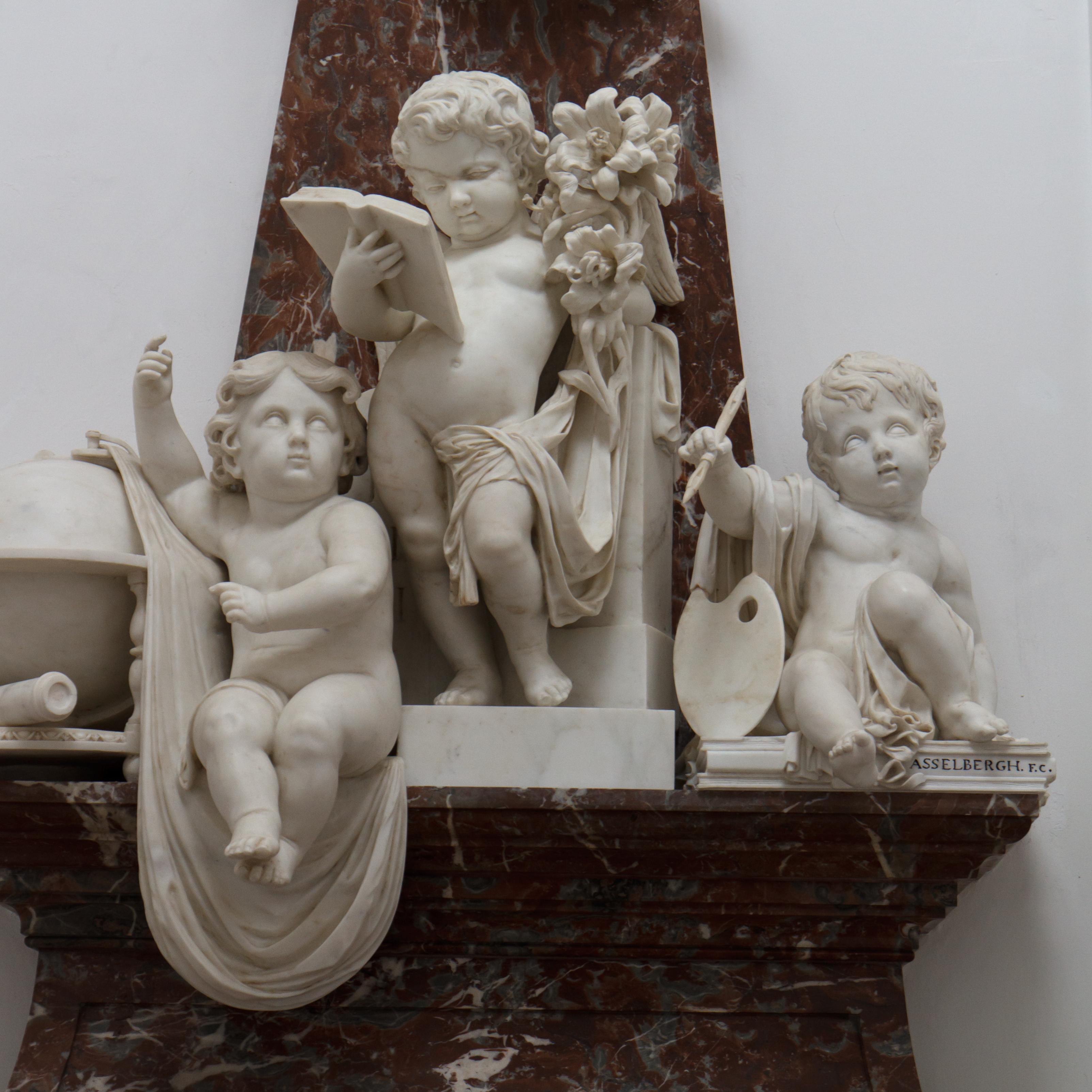 Teylers Challenge, visit to the museum on 28 April, 2012